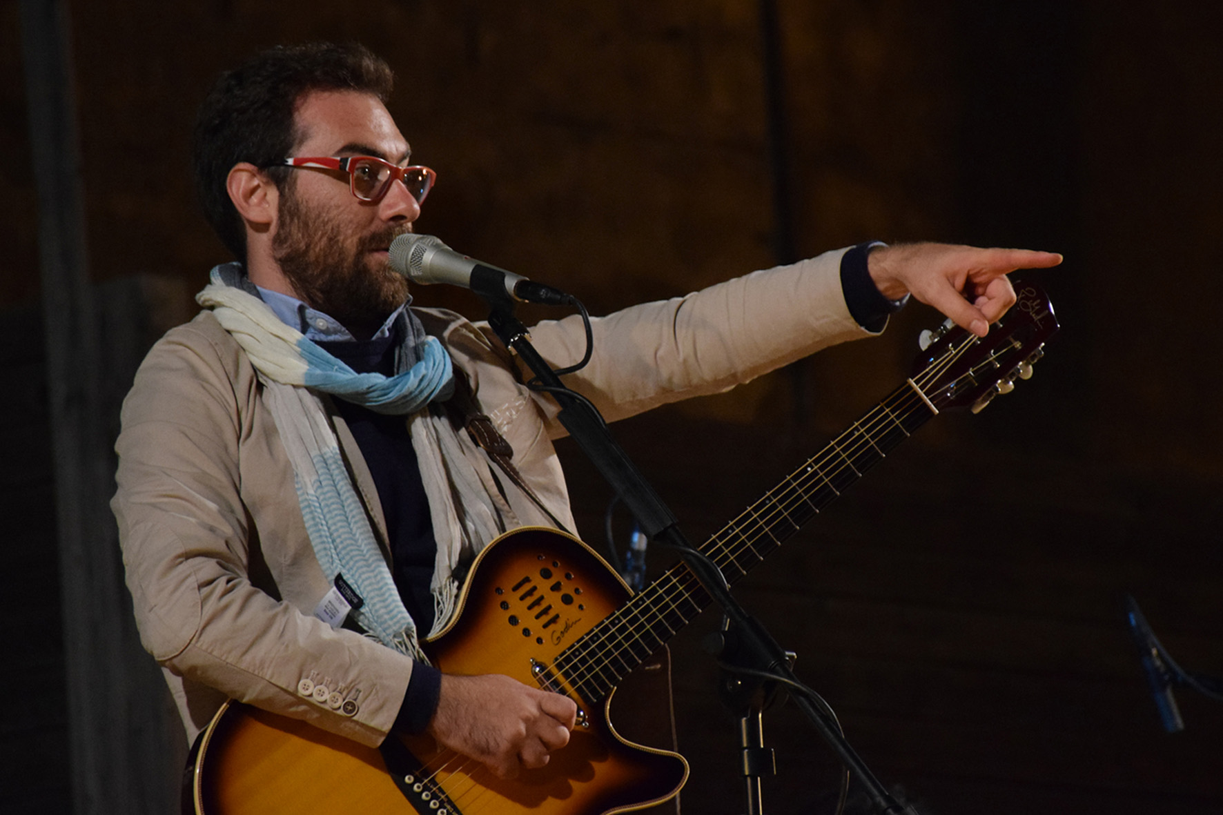 Mario Incudine live